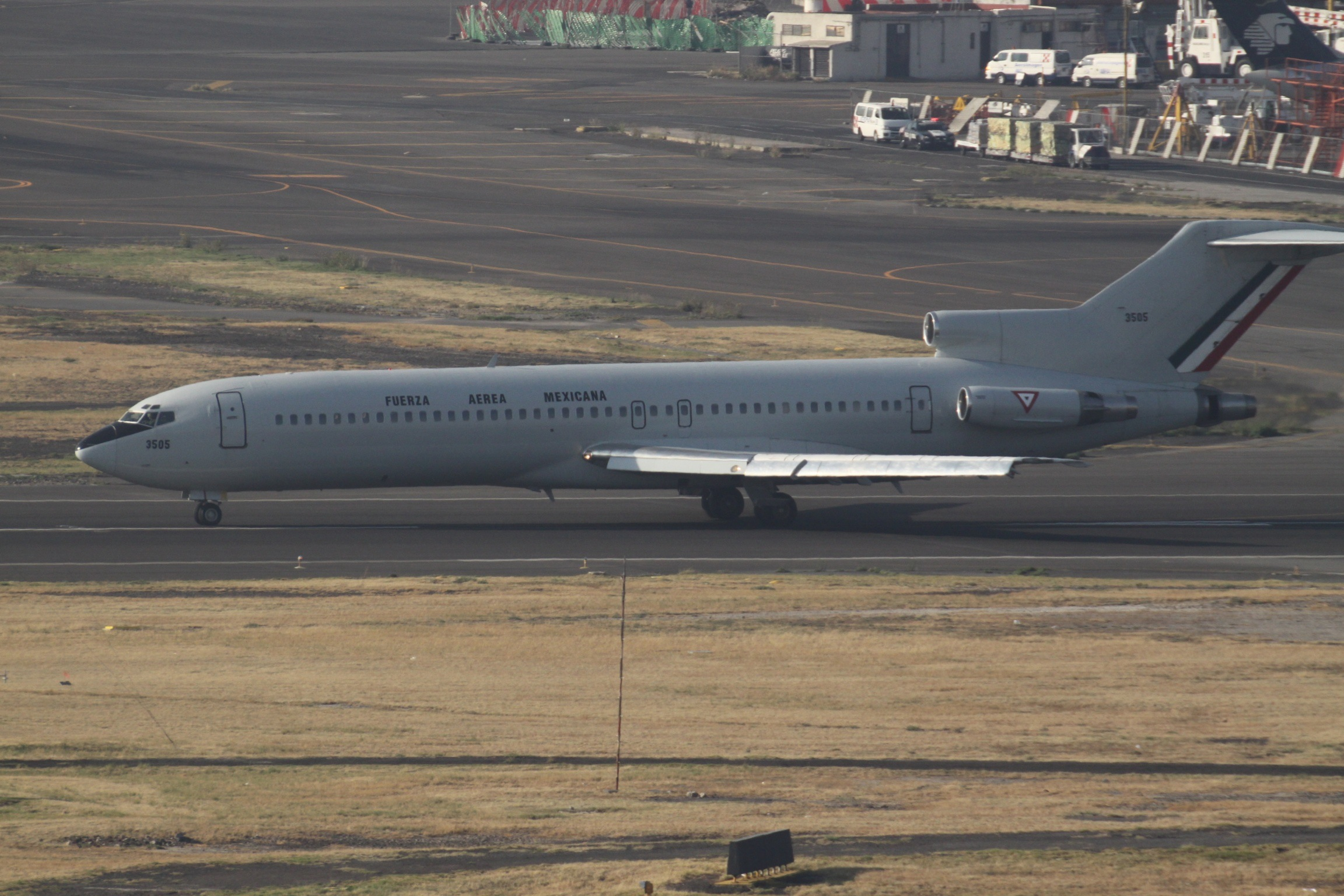 At Mexico City International Airport